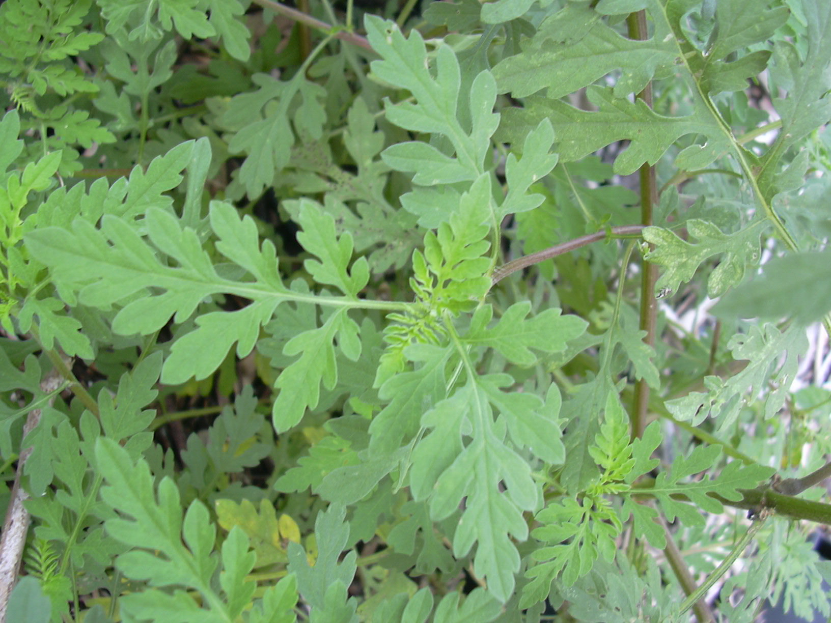 Ambrosia artemisiifolia (leaves). Location: Florida, Long Key